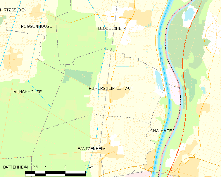 Map of French municipality